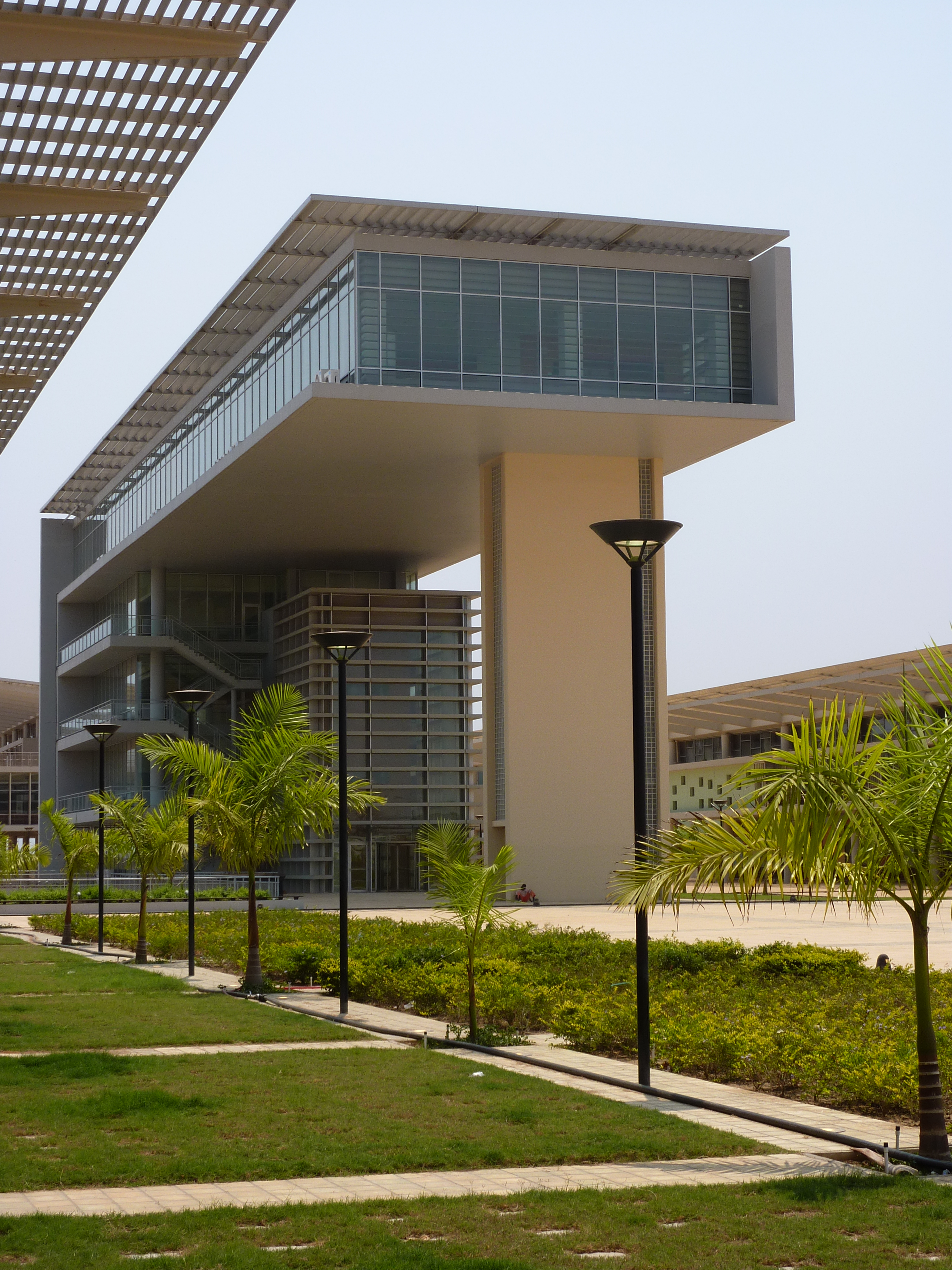 New campus